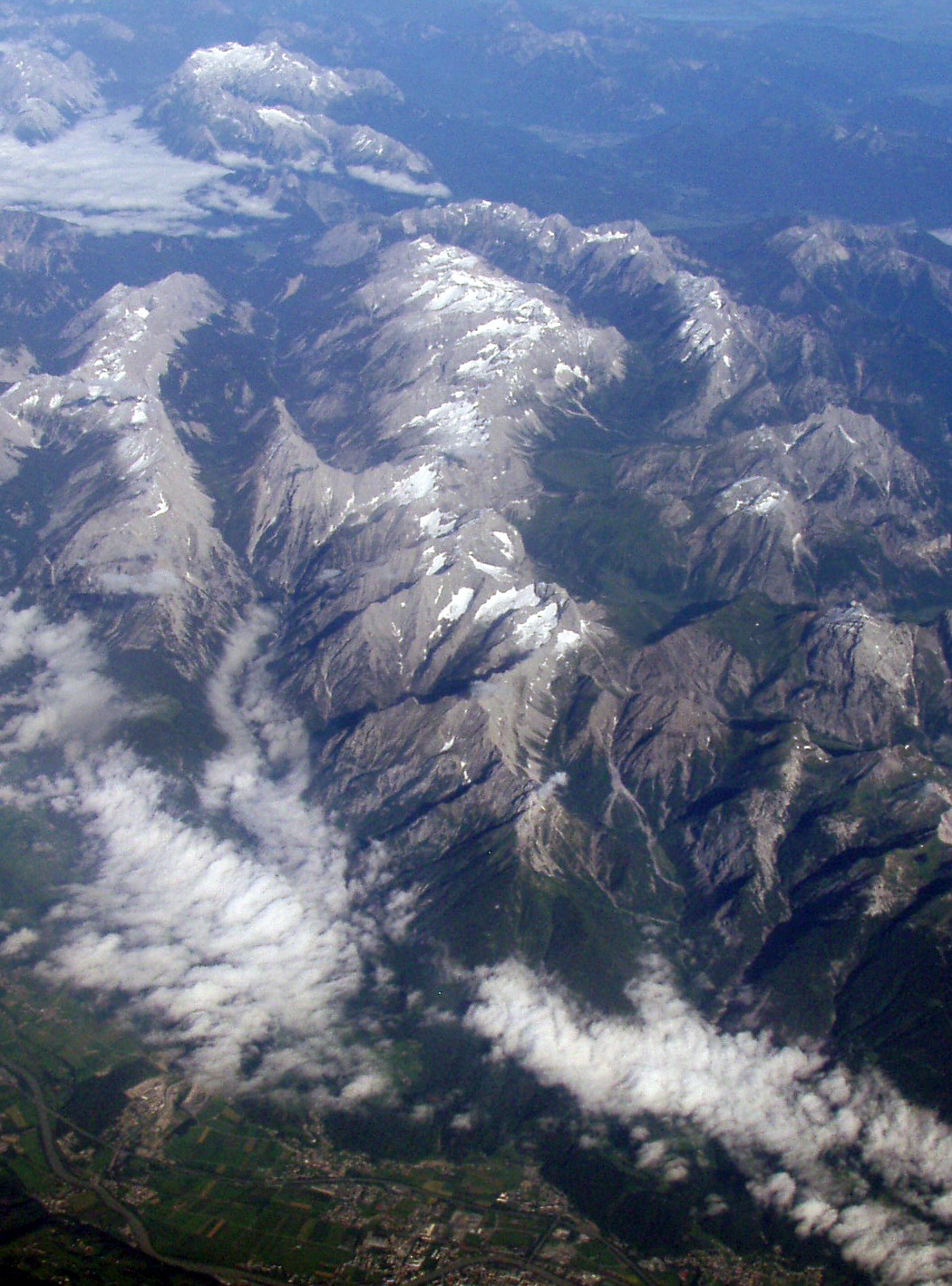 Aerial view of Karwendel Alps, Tyrol, Austria.